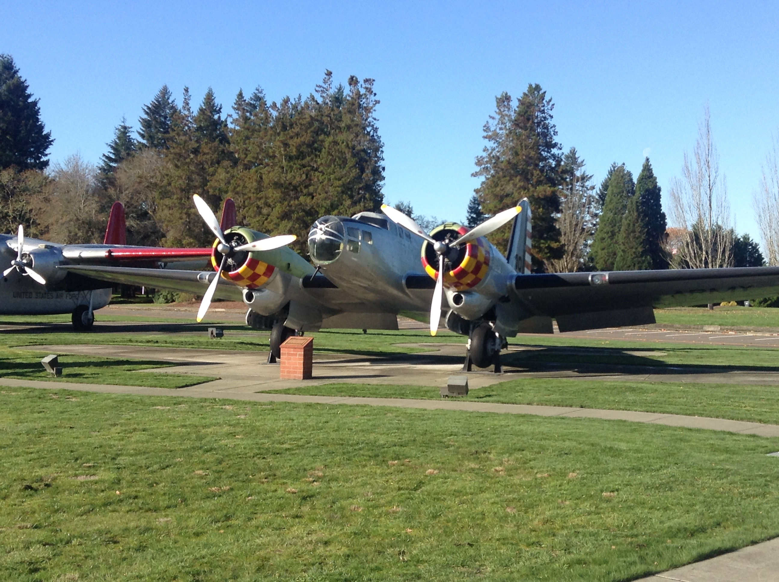 Douglas B-23 Dragon JBLM